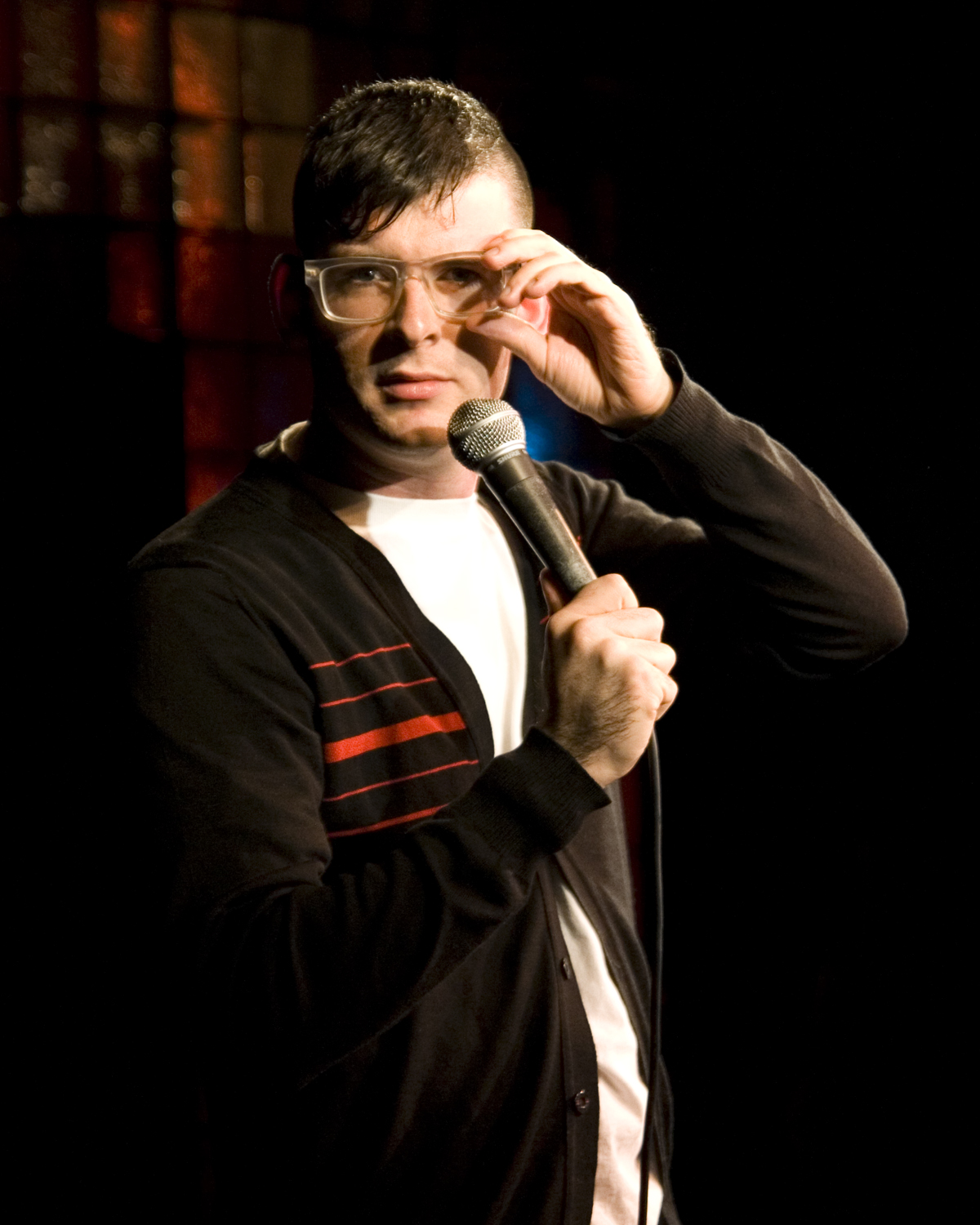 SXSW Comedy Fest 2010 Esther's Follies, The Velveeta Room, Austin Texas.